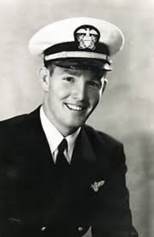 John C. Butler (US Navy Ensign)